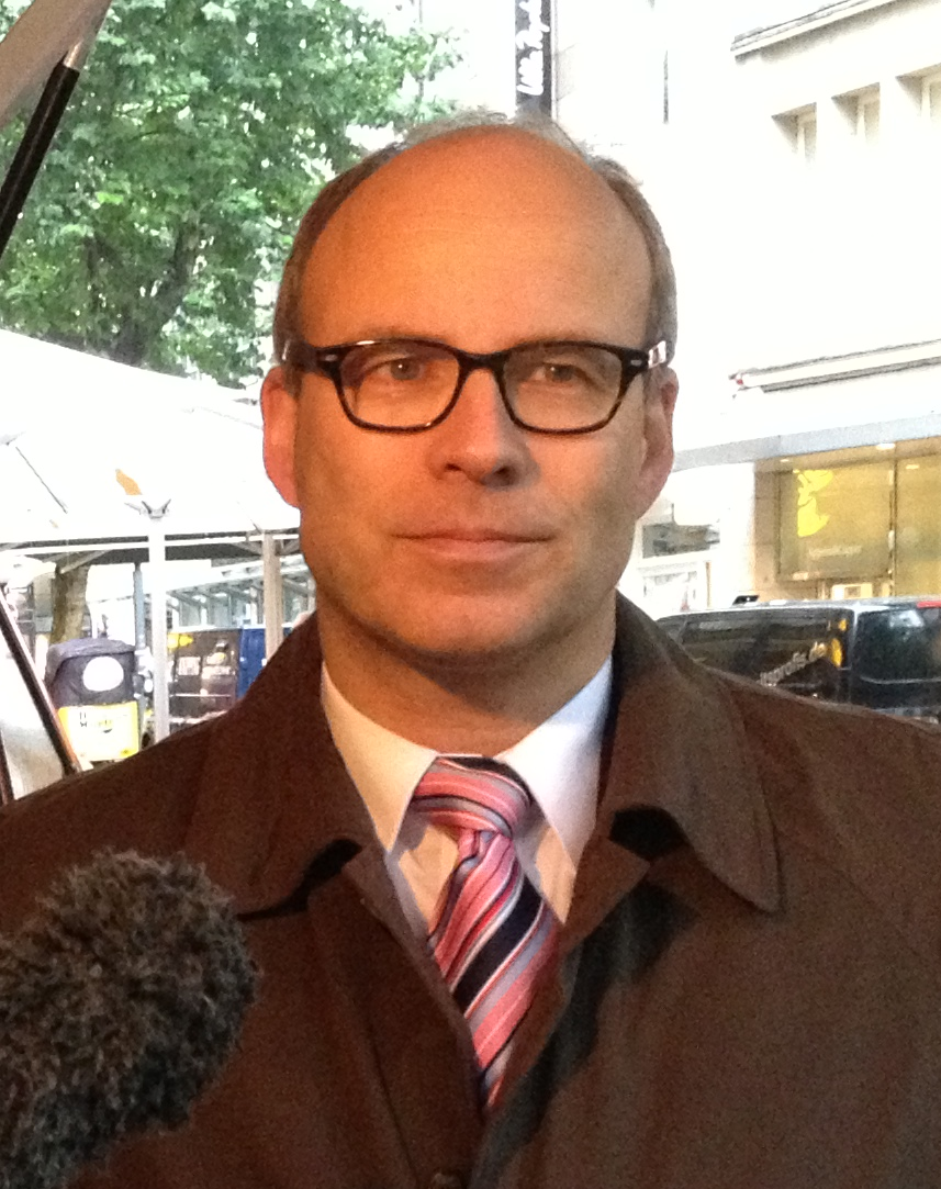 Ties Rabe (SPD), State Minister in the Senate Scholz I, Senate Scholz II and Senate Tschentscher I, in 2012